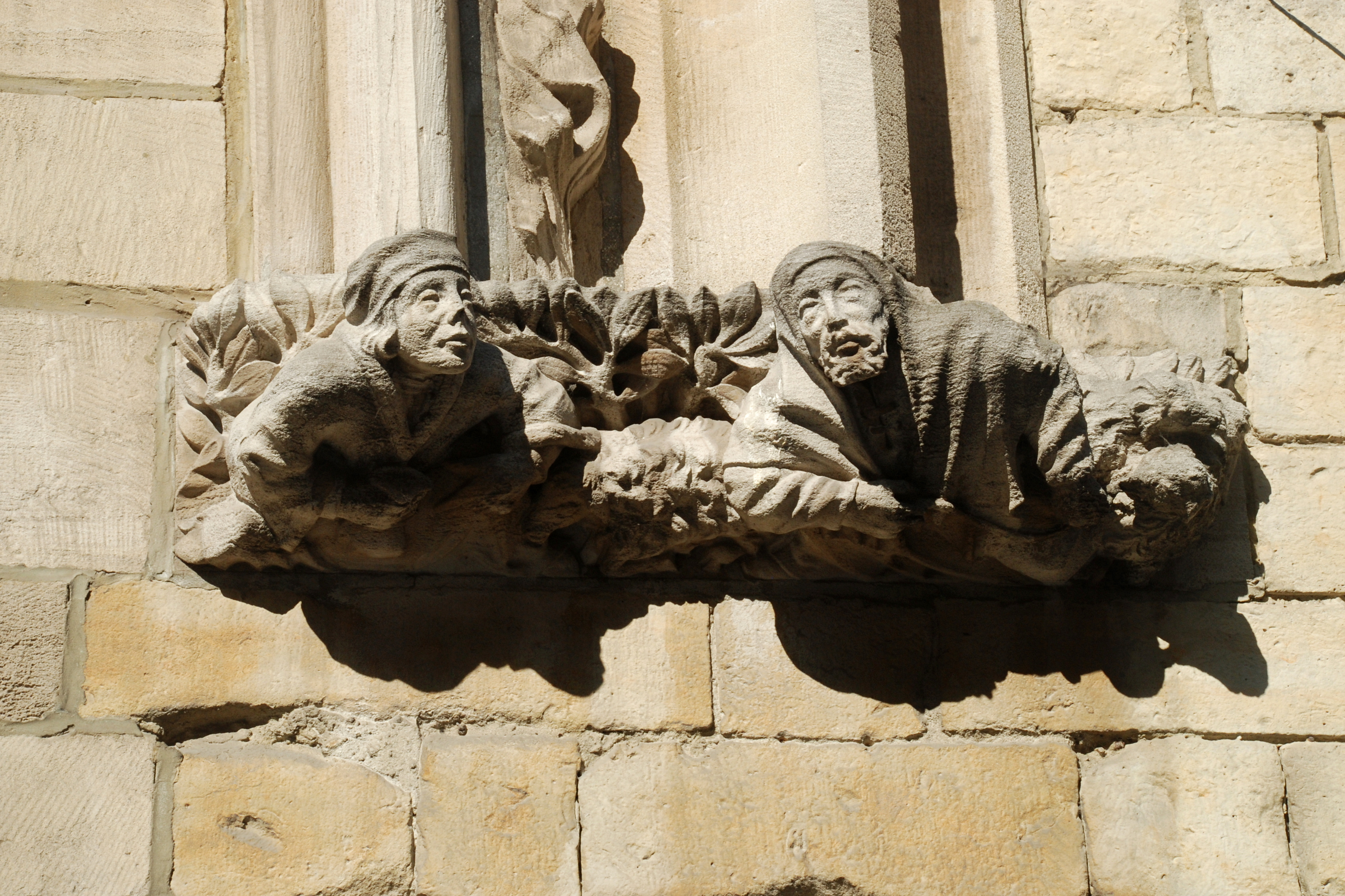 Belgium - Leuven - University Hall